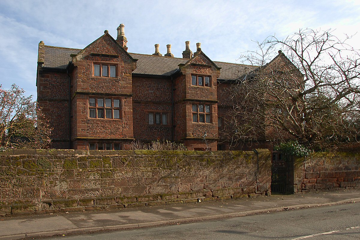 Willaston Old Hall, Data from Geograph: Description: Listed Grade II ICBM: 53.2909349712, -3.00582030288